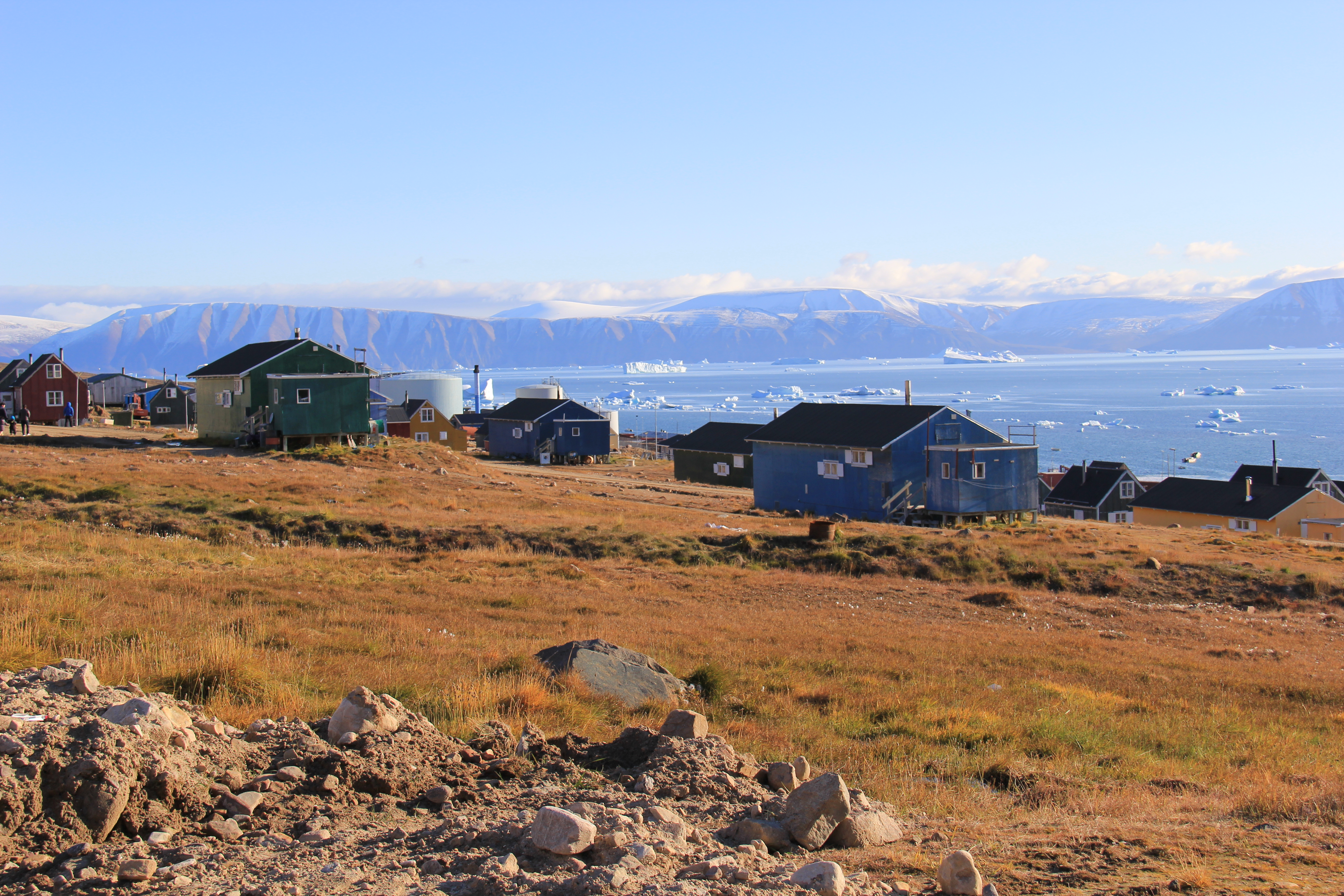 Houses in Qaanaaq